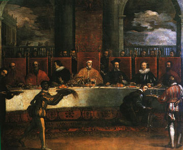 State banquet hosted by Giovanni I Cornaro, Doge of Venice